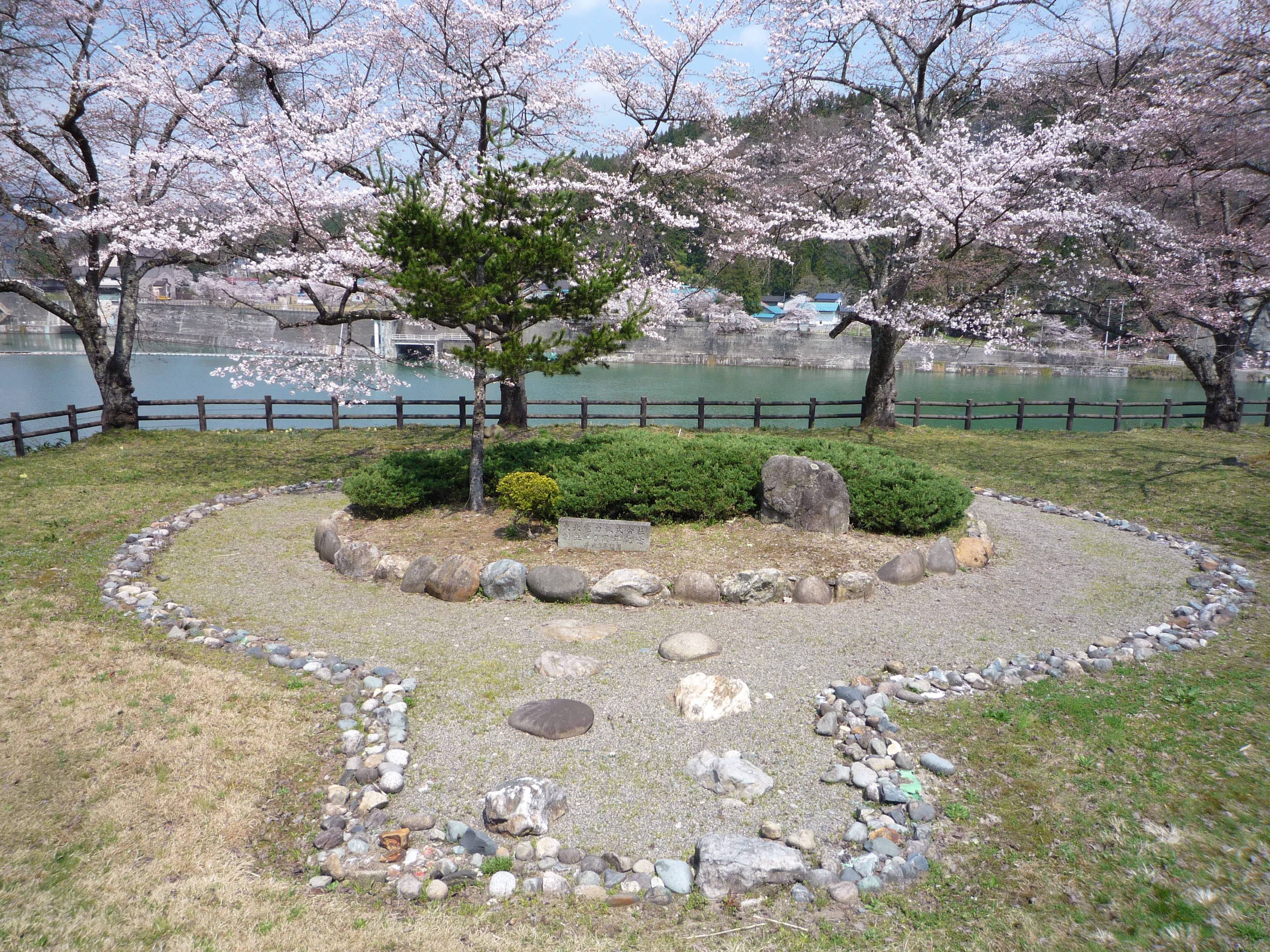 Kaminojiri Dam.